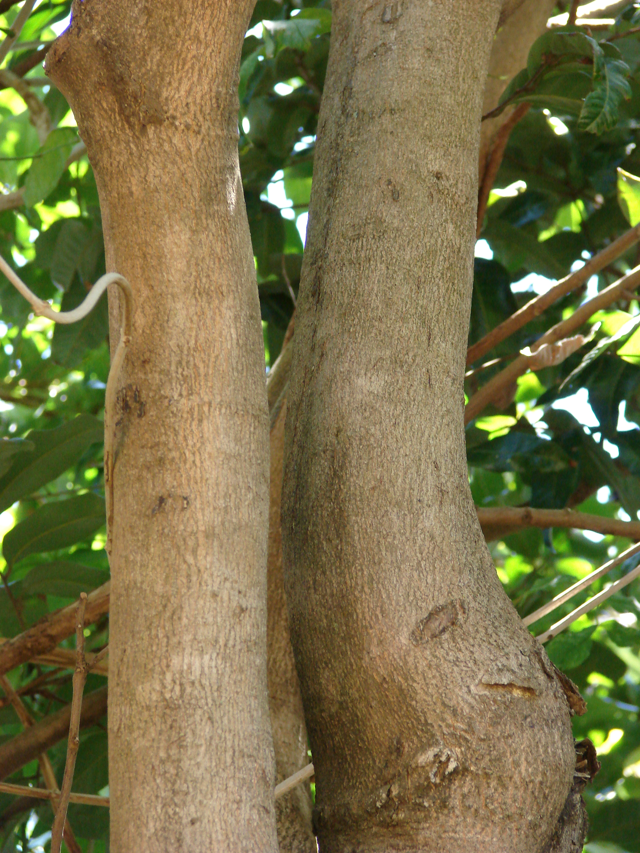 Dimocarpus longan (bark). Location: Maui, Makawao